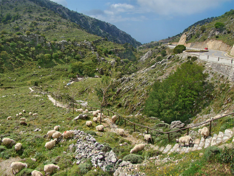 Imbros Gorge, Crete, Greece. Near the entrance of the hiking trail, looking south toward sea.